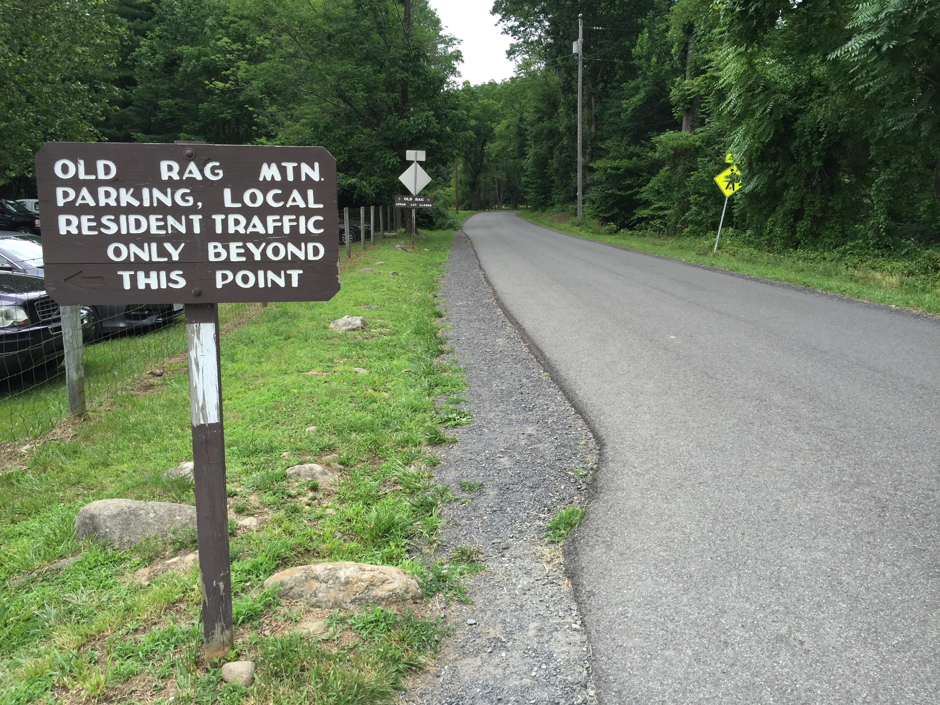 View west along Nethers Road (Virginia State Secondary Route 600) at Pine Hill Road (Virginia State Secondary Route 707) and the Old Rag Mountain parking lot in Nethers, Madison County, Virginia